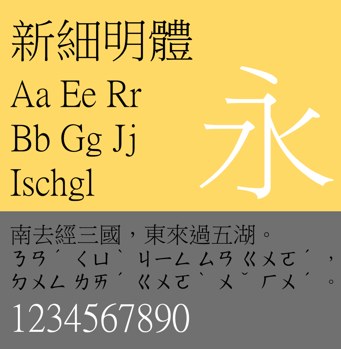 Sample of MingLiU font, displayed is PMingLiU v7.03 (P for proportional). Shown in picture are Latin alphabets “AaBbEeGgJjRr”, “Ischgl”, Traditional Chinese “南去經三國，東來過五湖。” with its bopomofo, and numerals 1-0.